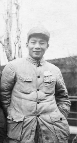 Chen Pixian cropped